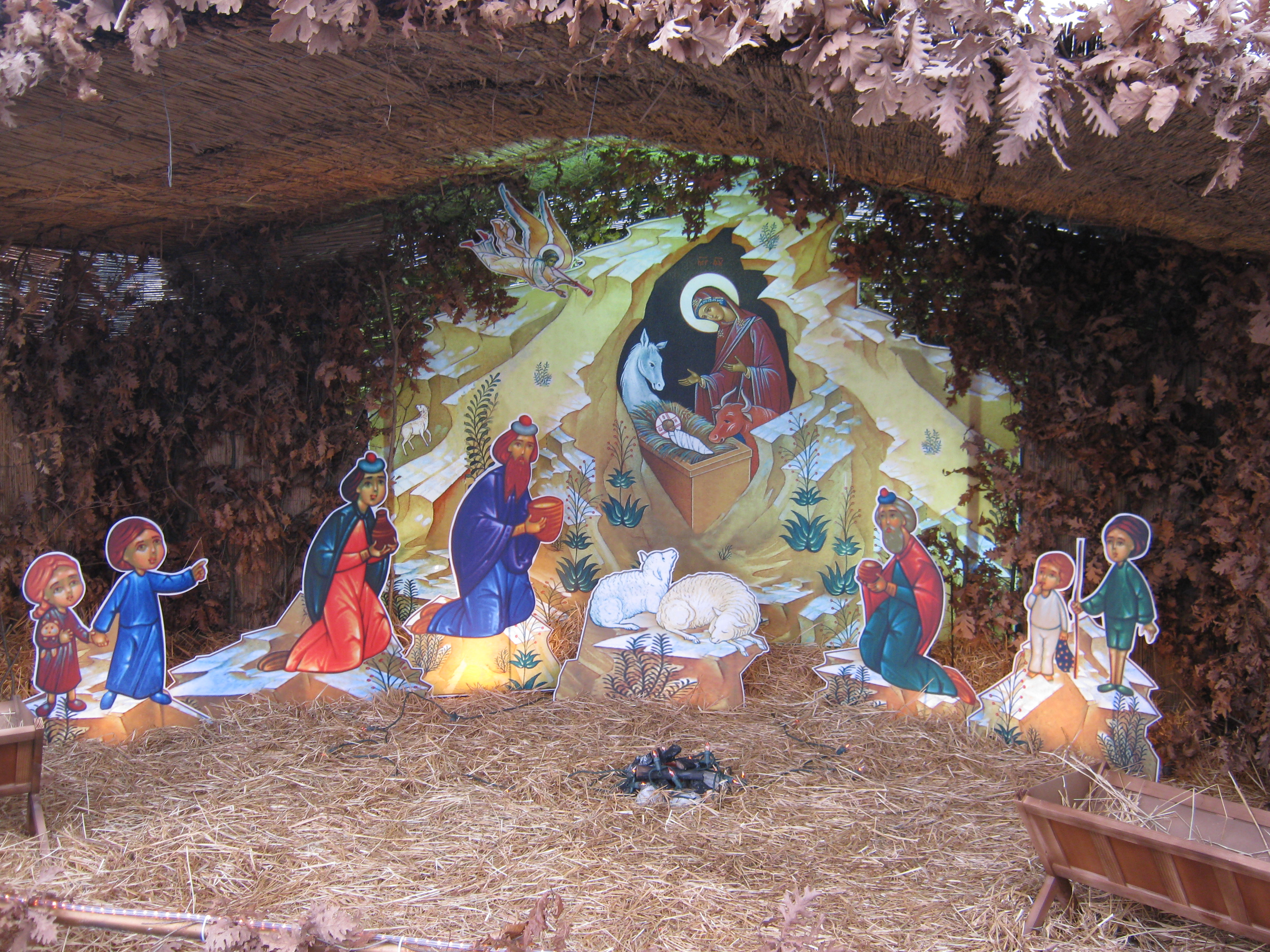 Orthodox Christmas decoration